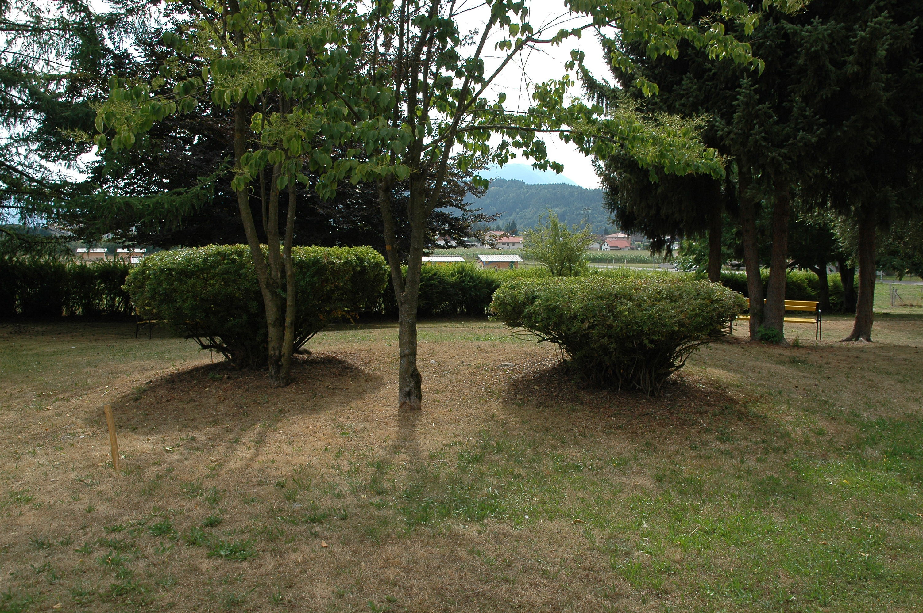 Cult-hill of Gratschach, Carinthia, Austria